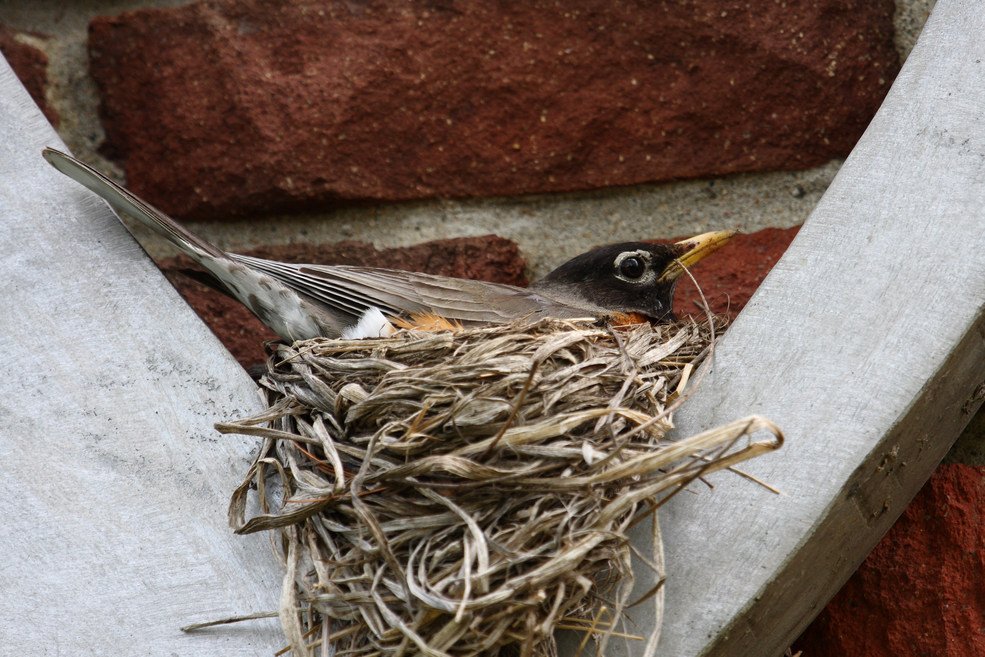 American Robin on the nest, Point Pelee National Park, Ontario, Canada